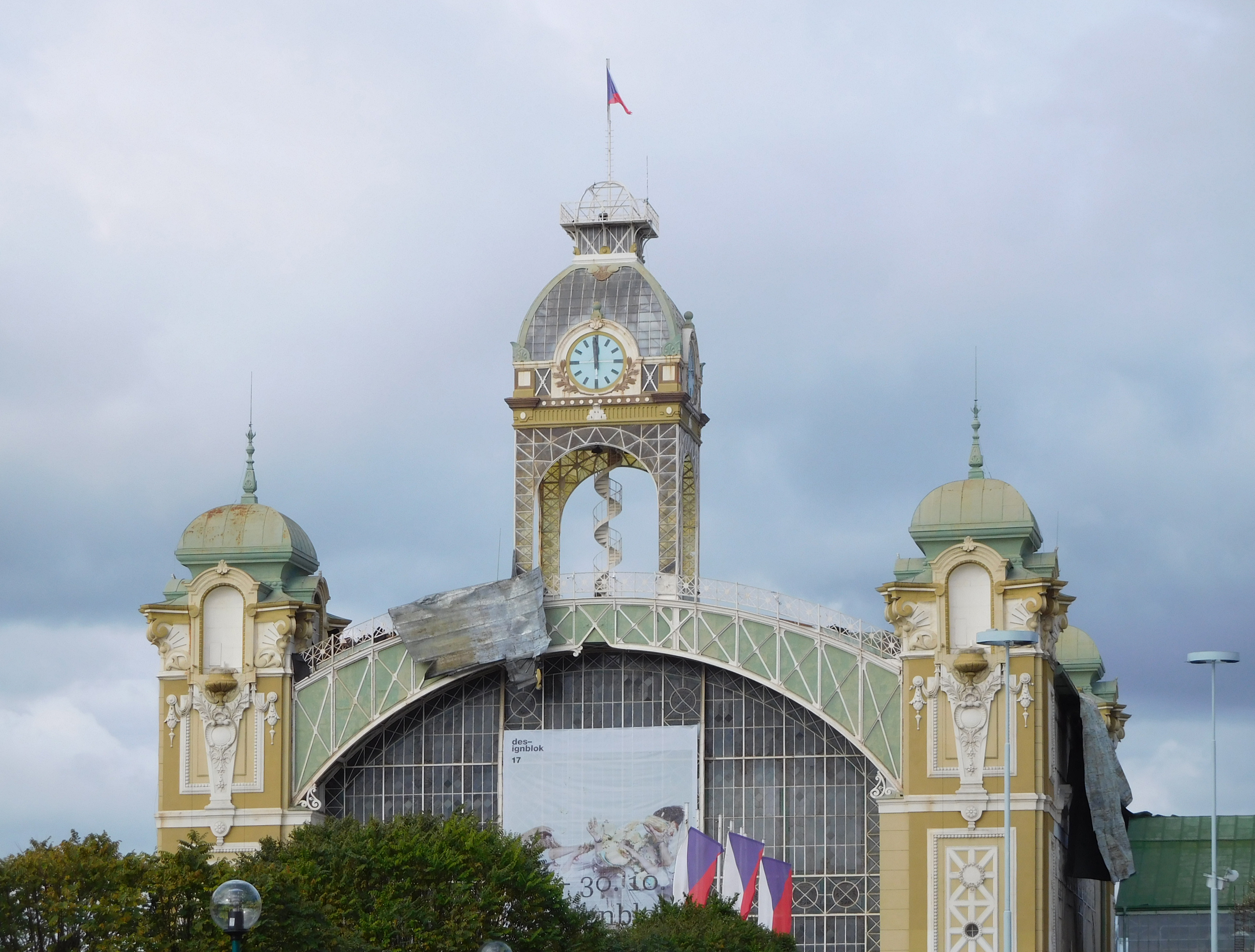 Industrial Palace in Prague - roof damaged by Cyclone Herwart